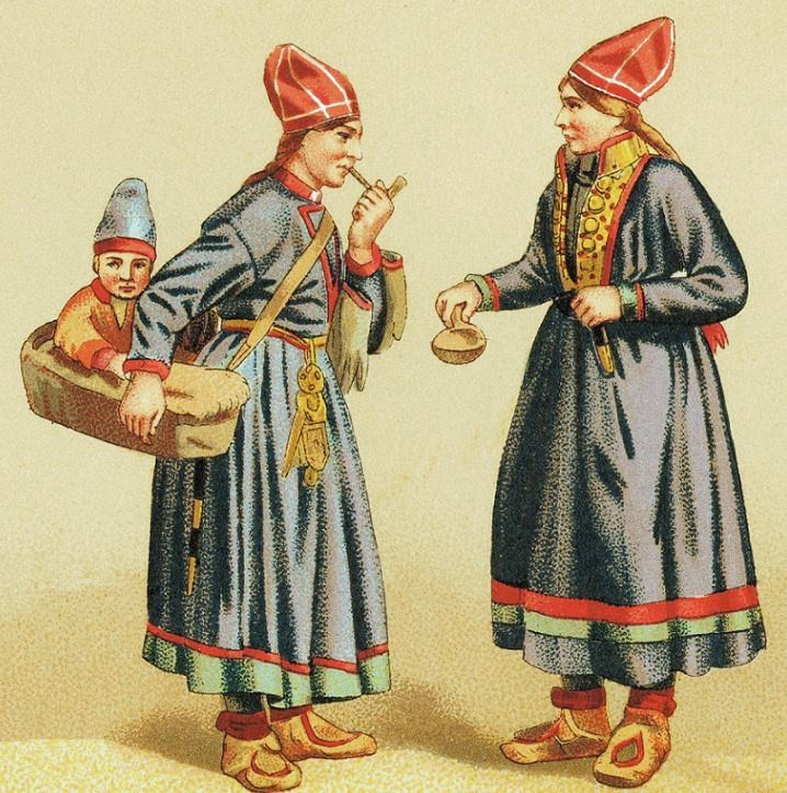 A painting of Sami women in traditional garments (costumes) with a child in Komse or child carrier. Lapland, Sweden. Search words: Saami, Samisk, Collars, Sapmi, silver, Barmklede, Bärmkläde, Brystklede, Kolt, Kofte, Gakti, Samisk sølv. Read more in Saamiblog